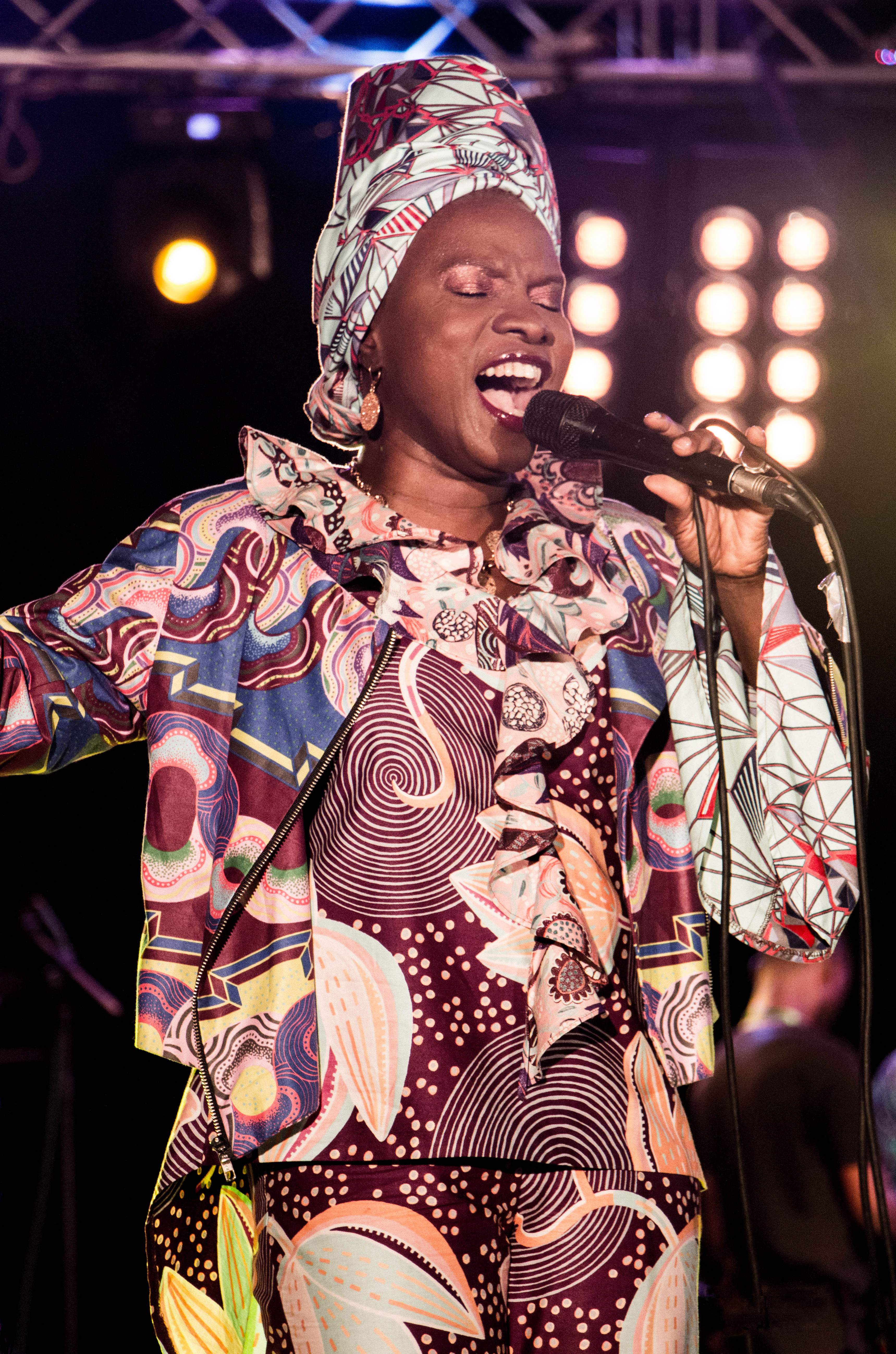 Angelique Kidjo performs live.